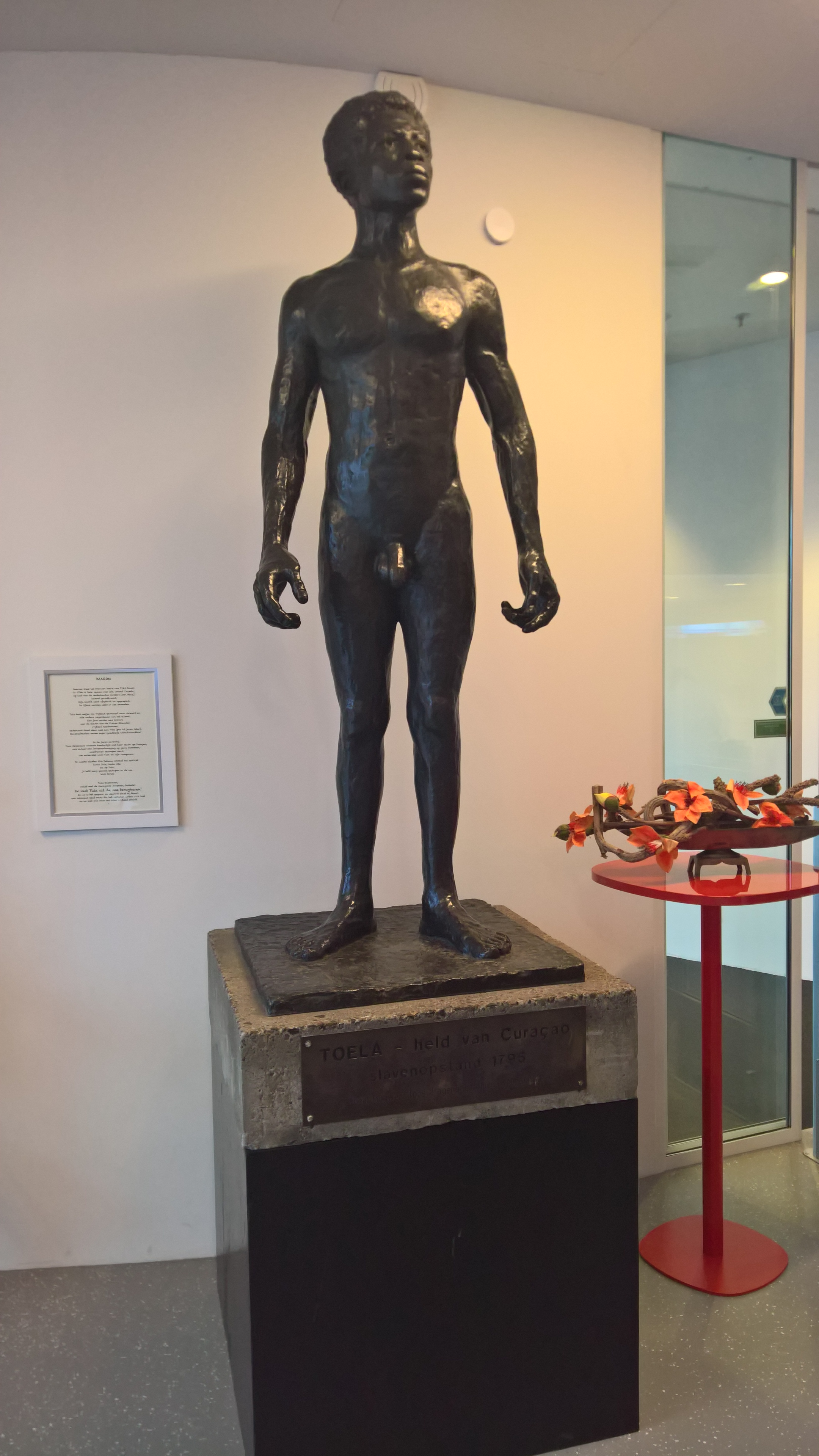 A statue of the slave rebel Tula located in Winschoten, Groningen. Tula fought against the Batavian Republic in an insurrection to free the slaves of Curaçao. Note: Tula is spelled as "Toela".